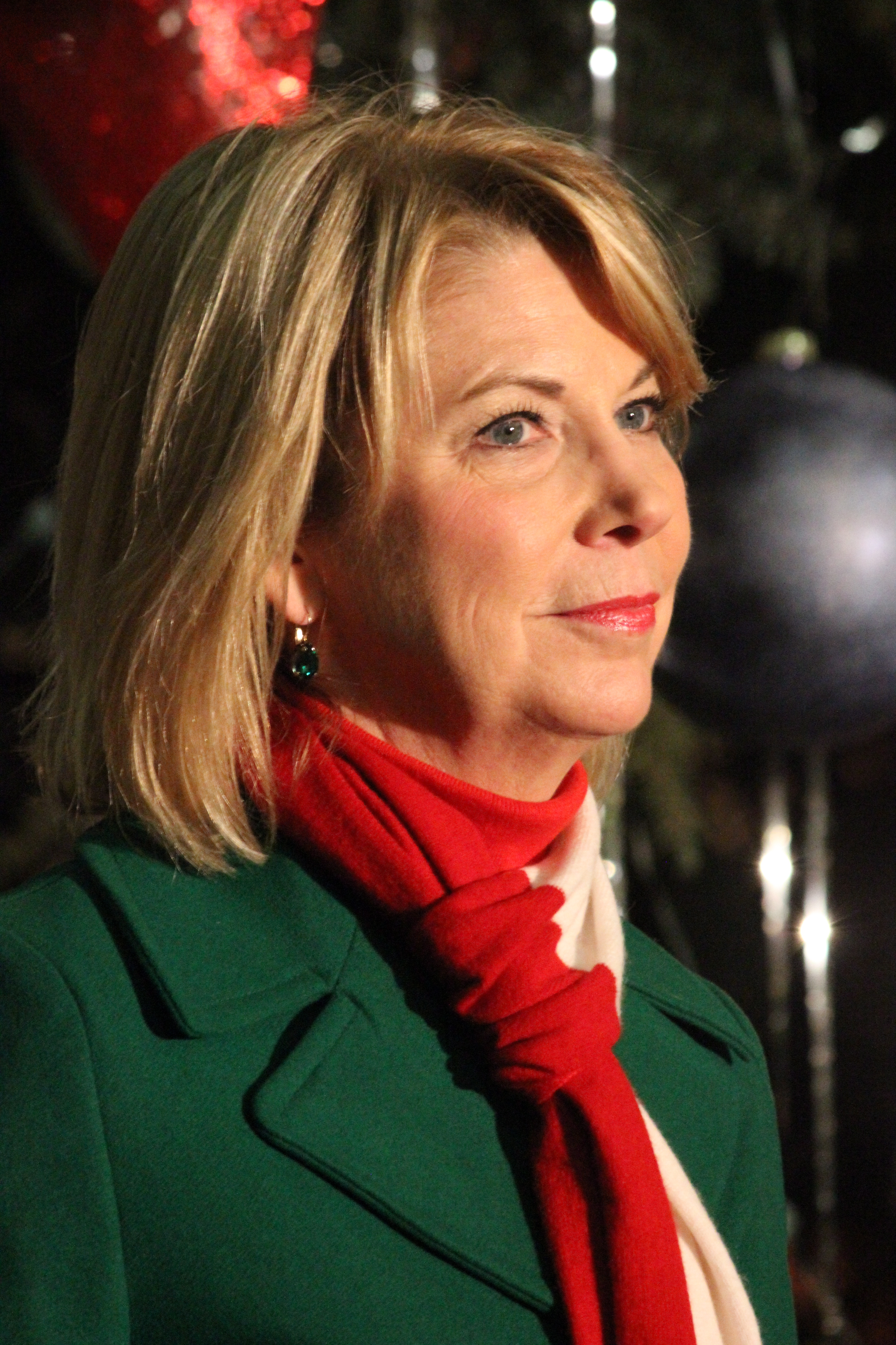 Omaha Mayor Jean Stothert at the Christmas tree lighting ceremony at the Durham Museum, Nov. 29, 2013.